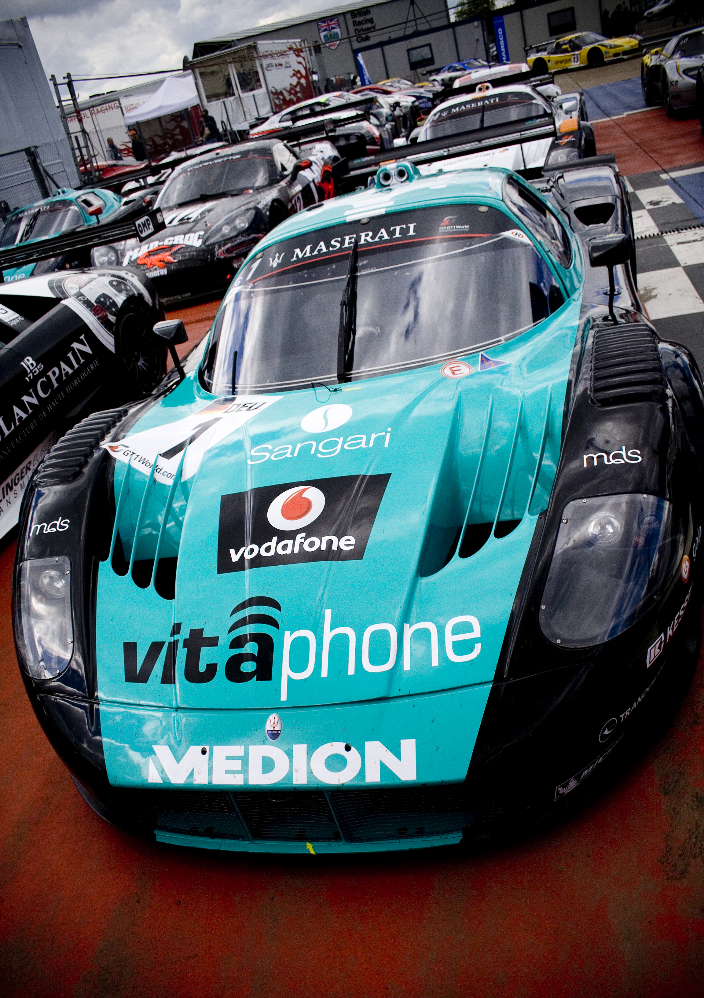 FIA GT1 World Championship - Maserati MC12 (Vitaphone Racing)